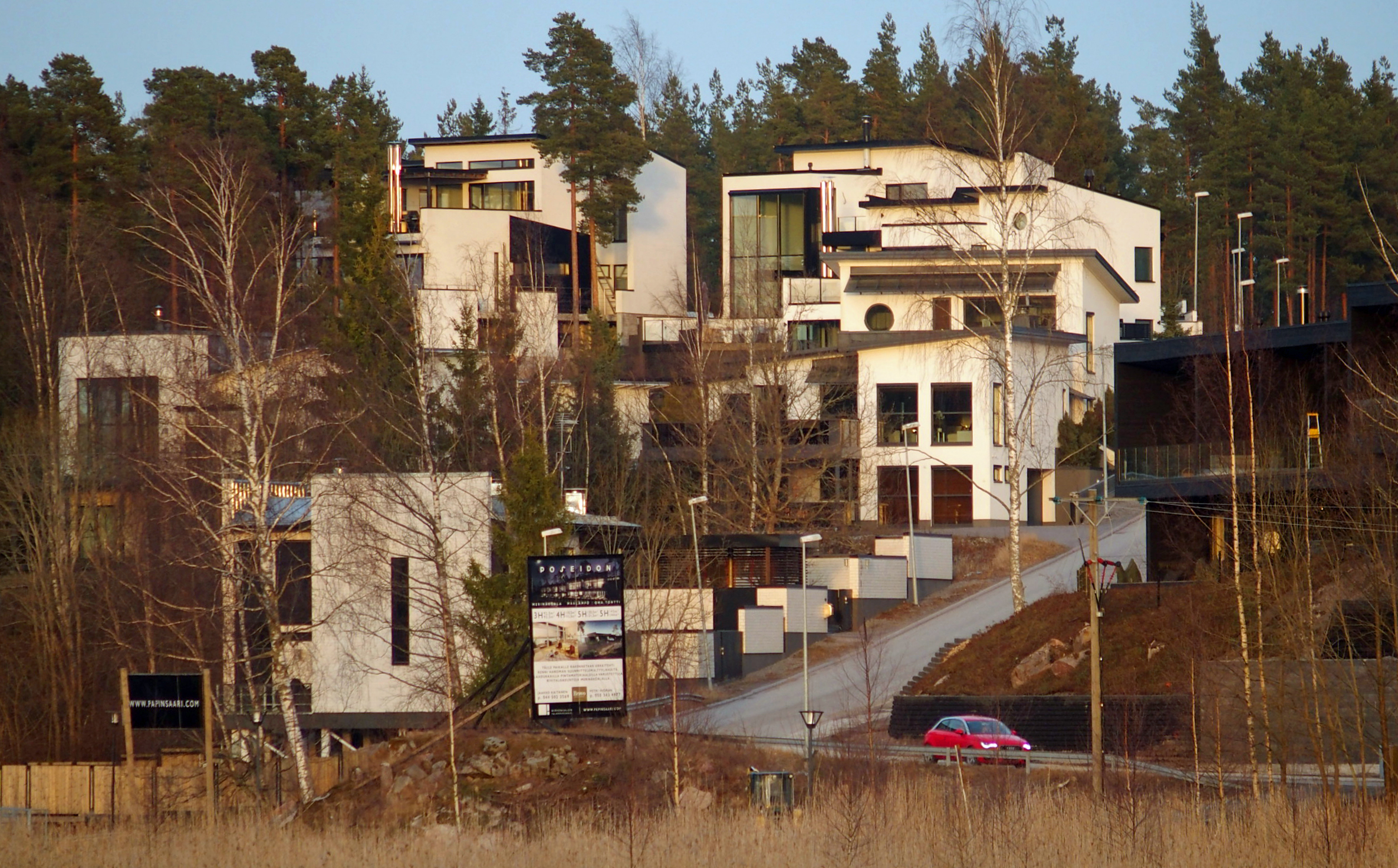 Papinsalmentie seen from Kaistarniemi. New residential buildings of Papinsaari, Turku, Finland.